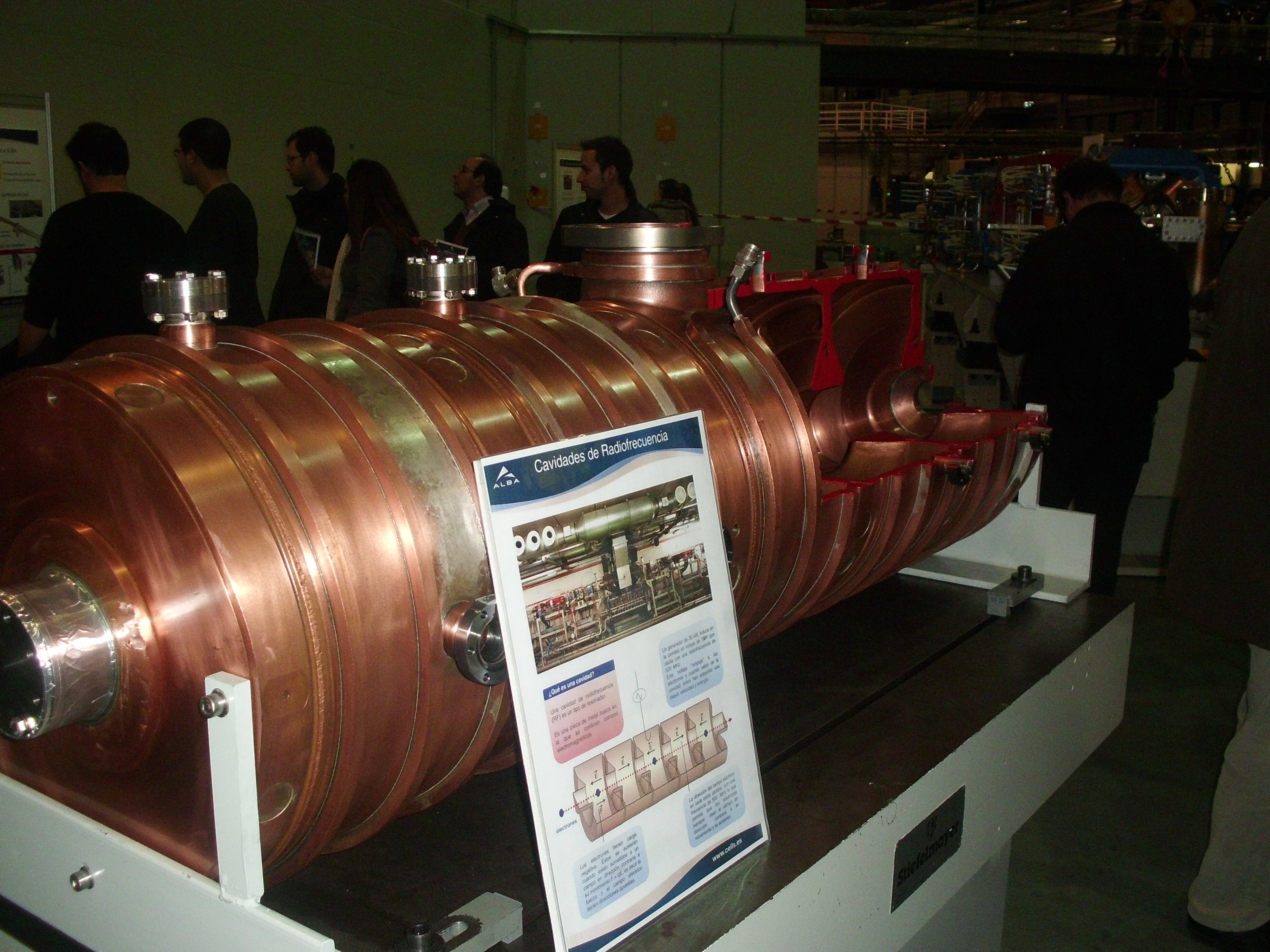 radiofrequency cavity